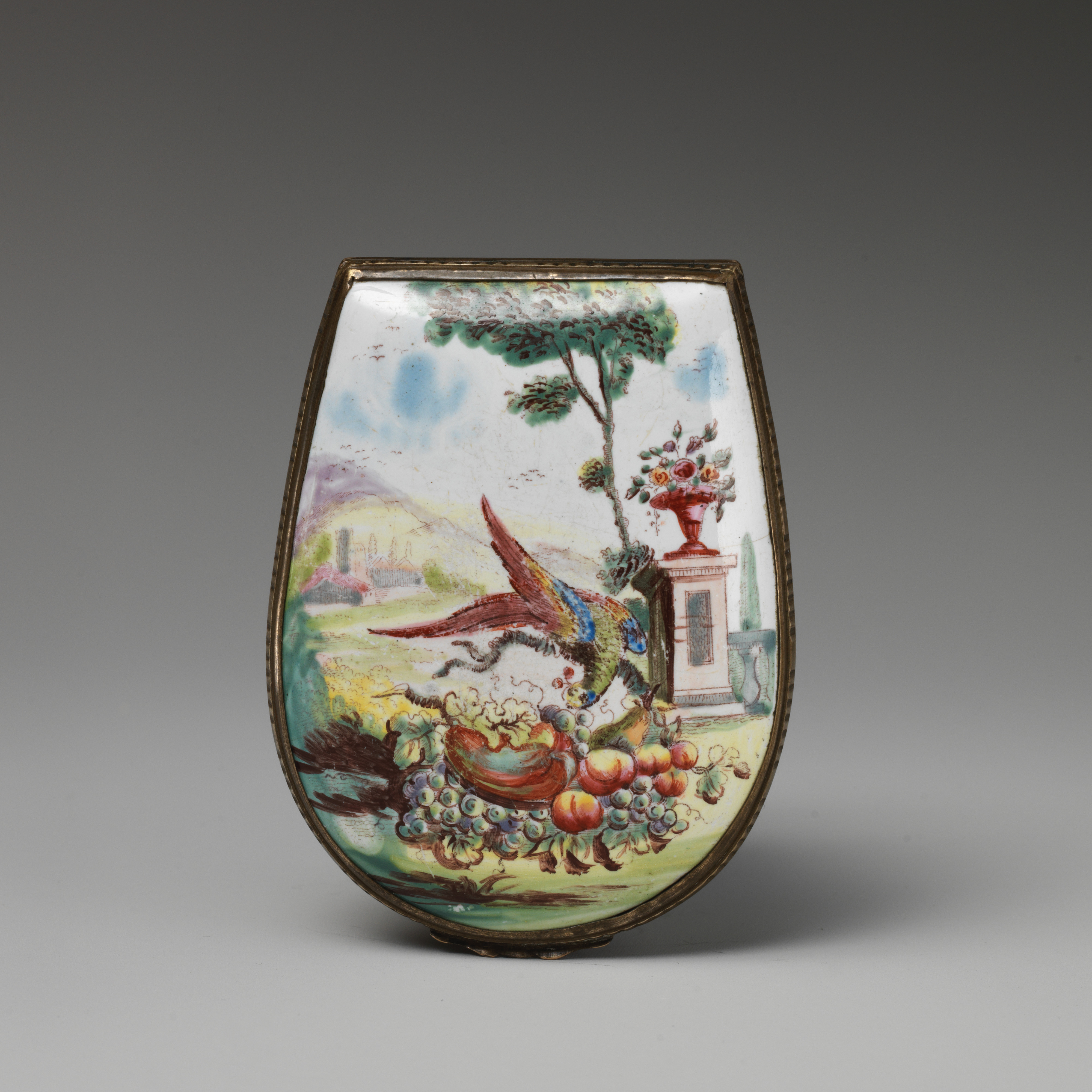 British, Bilston, South Staffordshire; Snuffbox; Enamels-Painted